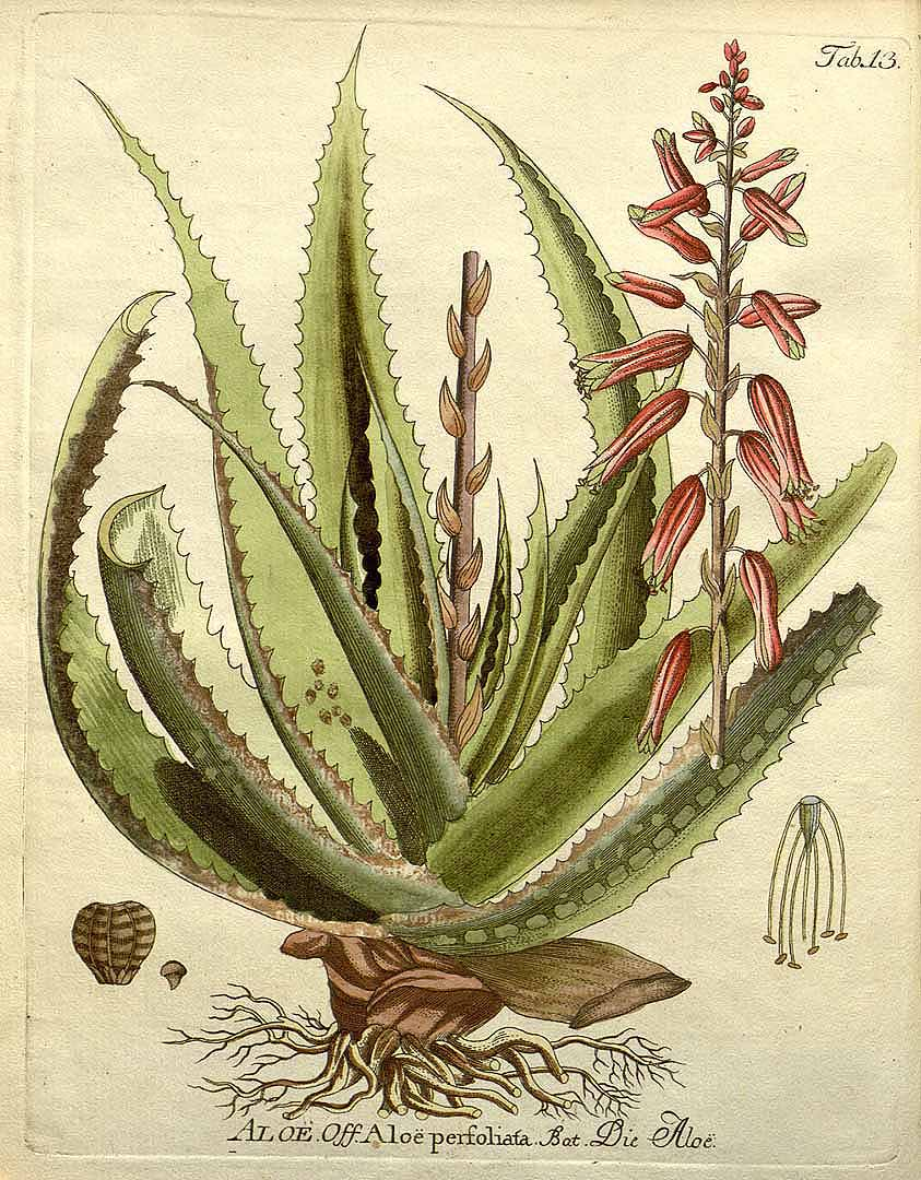 Aloe perfoliata